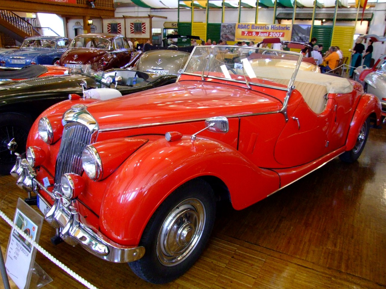 Riley Roadster 2500 ccm 100 PS 1949